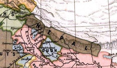 Political Map of Empire of Nepal (Gorkha) 1805 ADनेपाली: गोरखा साम्राज्यको नक्सा ईश्वी सन् १८०५